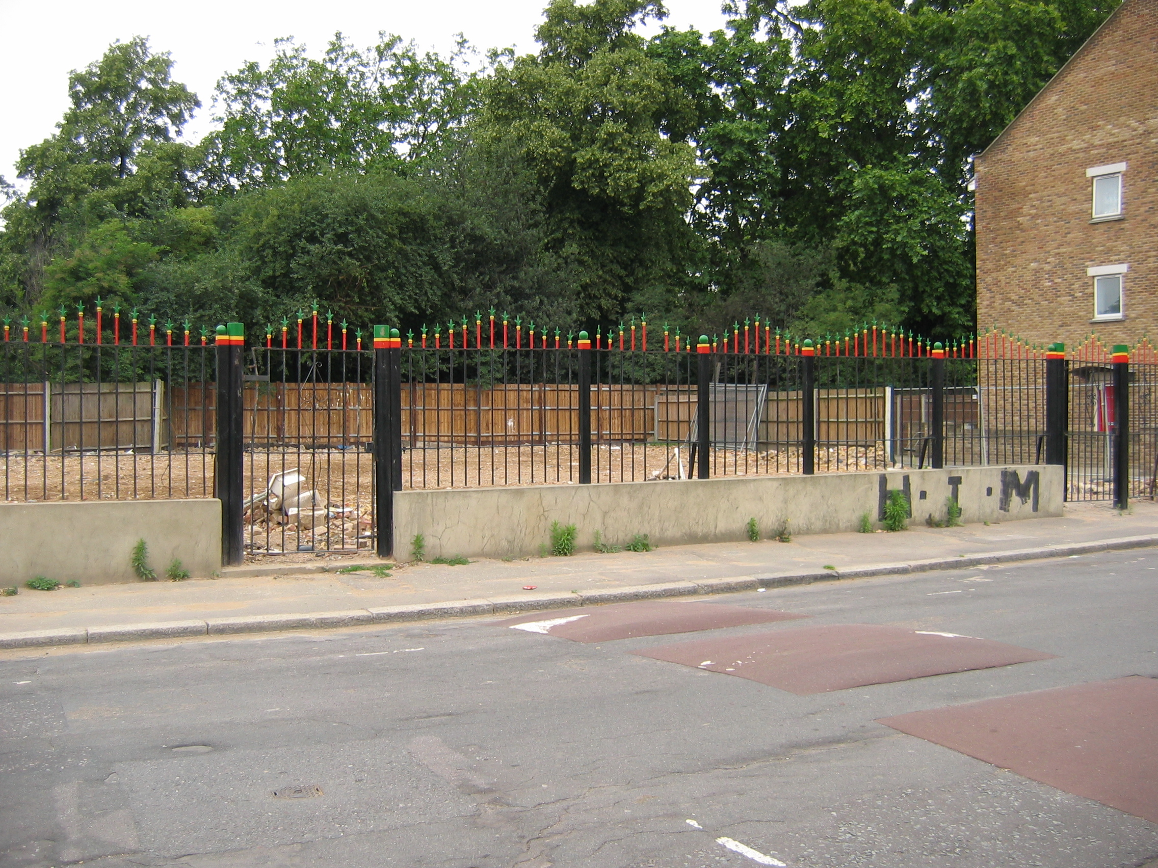 Remains of the Rastafarian Temple in St._Agnes_Place, London. July 2007 - post demolition.